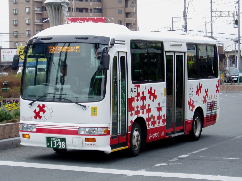 Hino Liesse for Keihanbus, use for "KURUTTO BUS" car number e-3130, spacial operationg on "Shijonawate-shi Community Bus" at Shinobugaoka-stn.